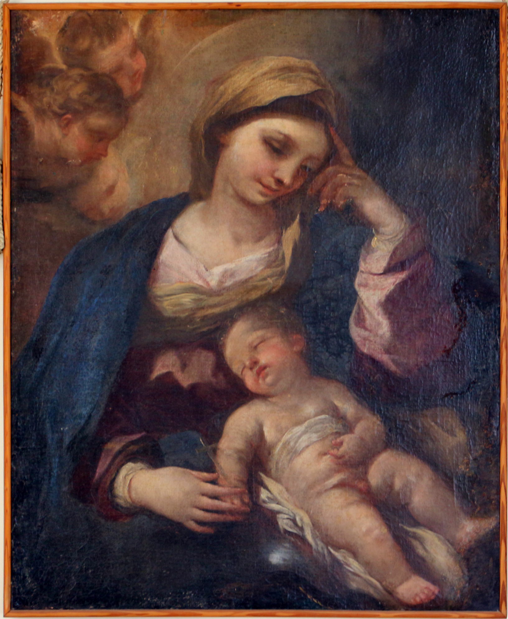 Noci, Italy